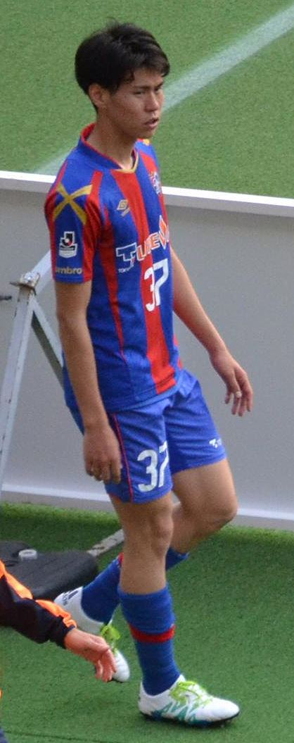 Kento Hashimoto after the Tamagawa Clasico - the match between FC Tokyo and Kawasaki Frontale - played at Ajinomoto Stadium 16th April 2016.